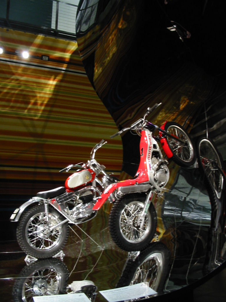 The Art of the Motorcycle, Guggenheim Las Vegas. Left: Bultaco Sherpa T (1965). Right: Montesa Cota 315 R (2001)